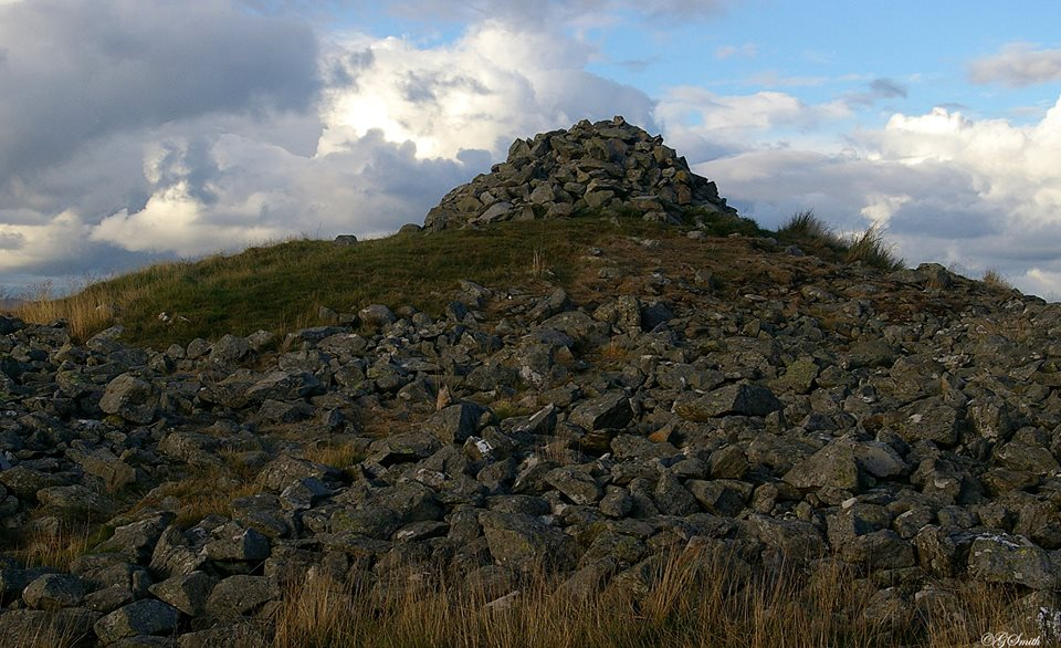 Corwen Denbighshire